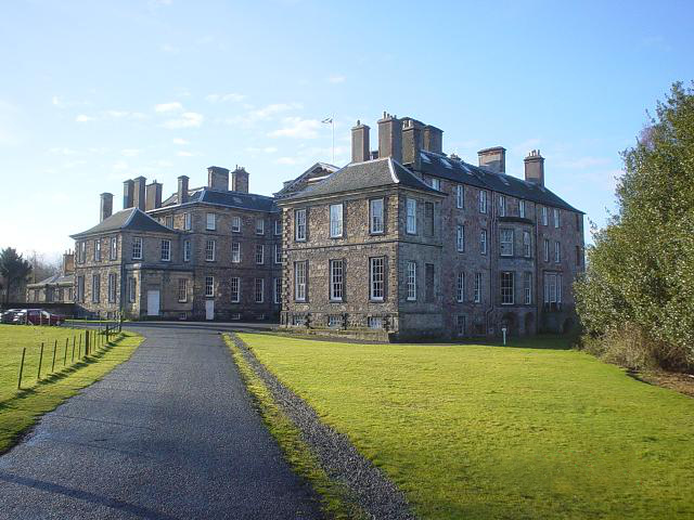 Image of Dalkeith Palace on 17 January 2004.